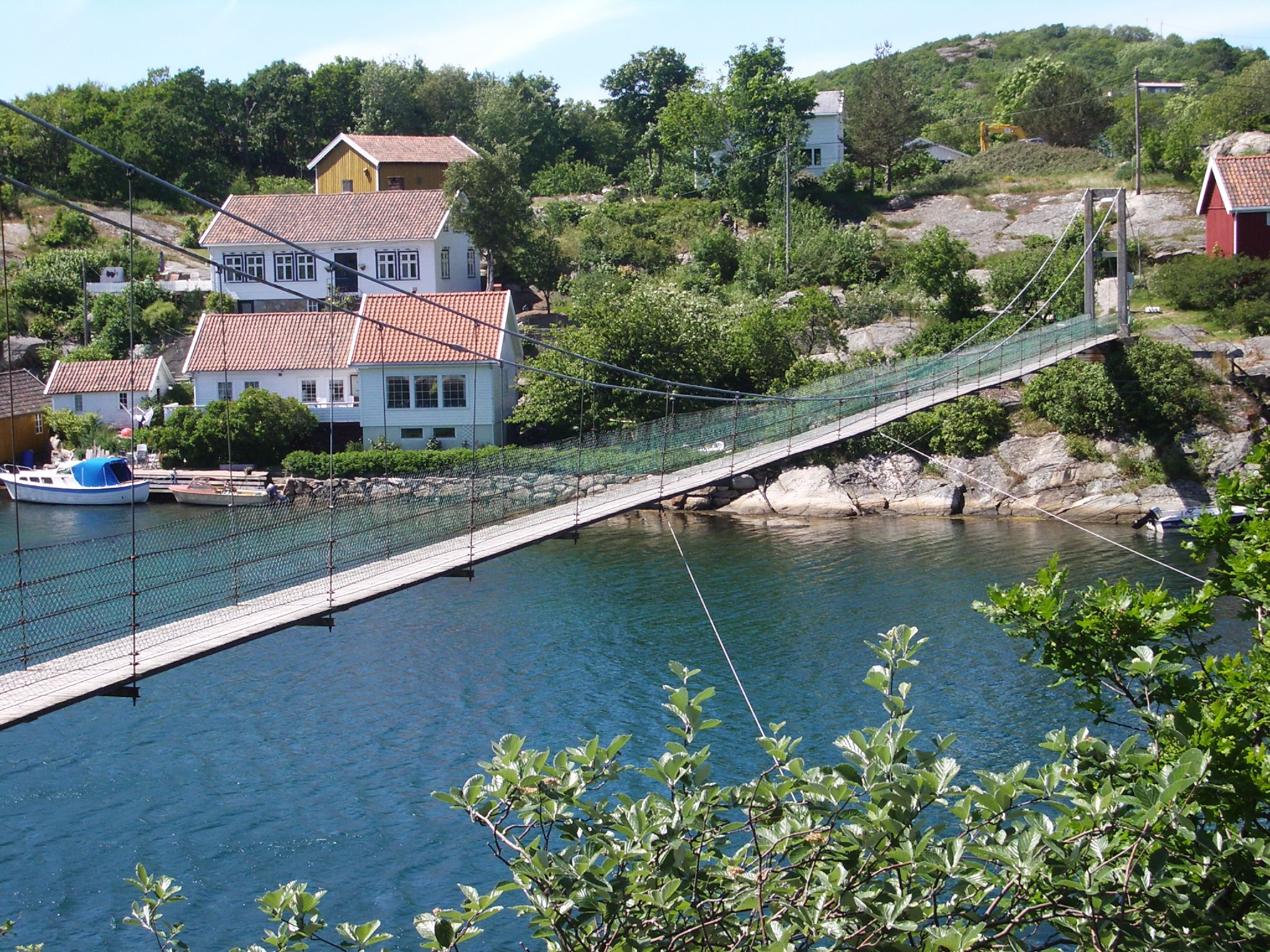 Rossnes Bridge (Rossnesbroa) between Farestad and Rossnes in Mandal municipality, Vest-Agder county, Norway. This footbridge from 1953 was replaced by a new, slightly wider footbridge in 2010. Original description: IMGP2190